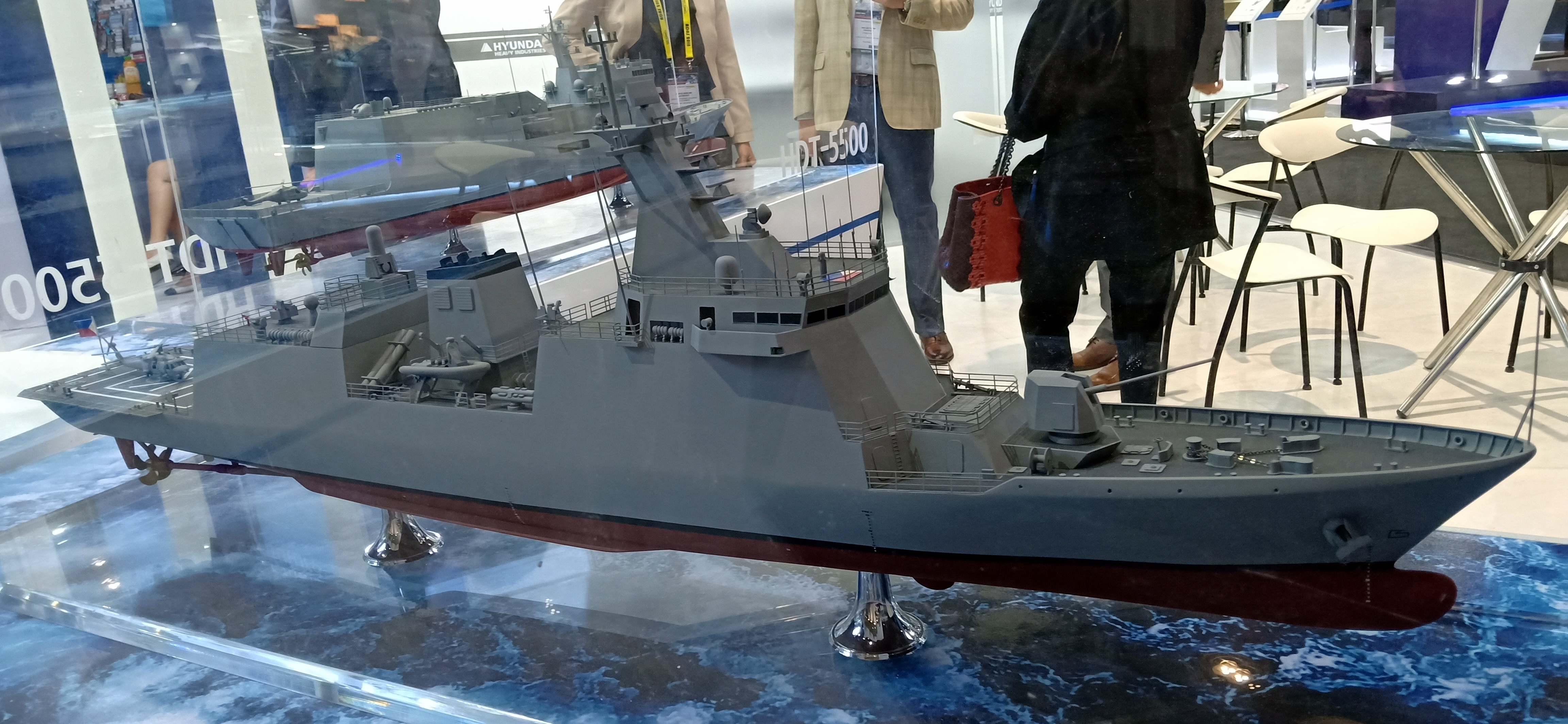 A front view of the HDF-2500 Frigate made by Hyundai Heavy Industries (HHI) for the Philippine Navy. Photo taken during the 2018 Asian Defence and Security (ADAS) Trade Show at the World Trade Center in Pasay, Metro Manila